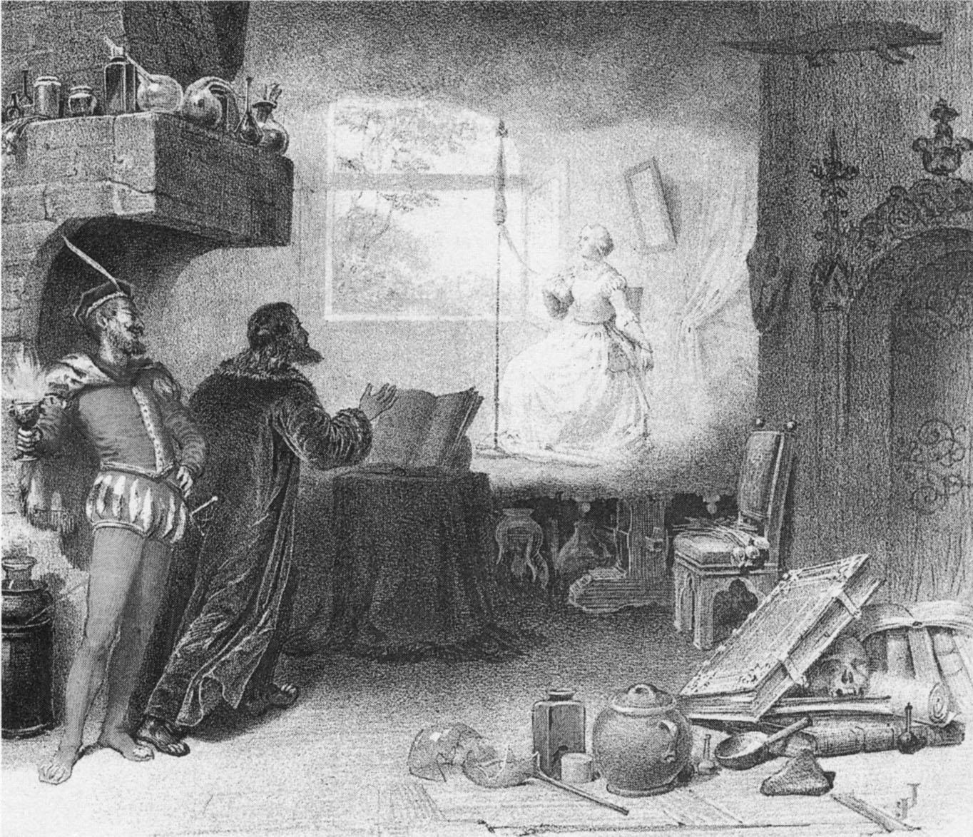 Lithograph depicting the vision of Margeurite in Faust's study in Act 1 of Gounod's opera Faust as performed at Covent Garden in 1864. Méphistophélès was played by Jean-Baptiste Faure, and Faust by Giovanni Mario. From a contemporary sheet music cover.